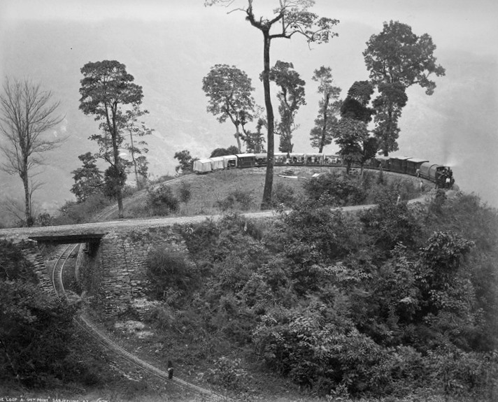 The loop at ‘Agony Point’ at Tindharia on the Darjeeling Hill Railway in West Bengal, from the Macnabb Collection, taken by Bourne & Shepherd in c.1880. (British Library)